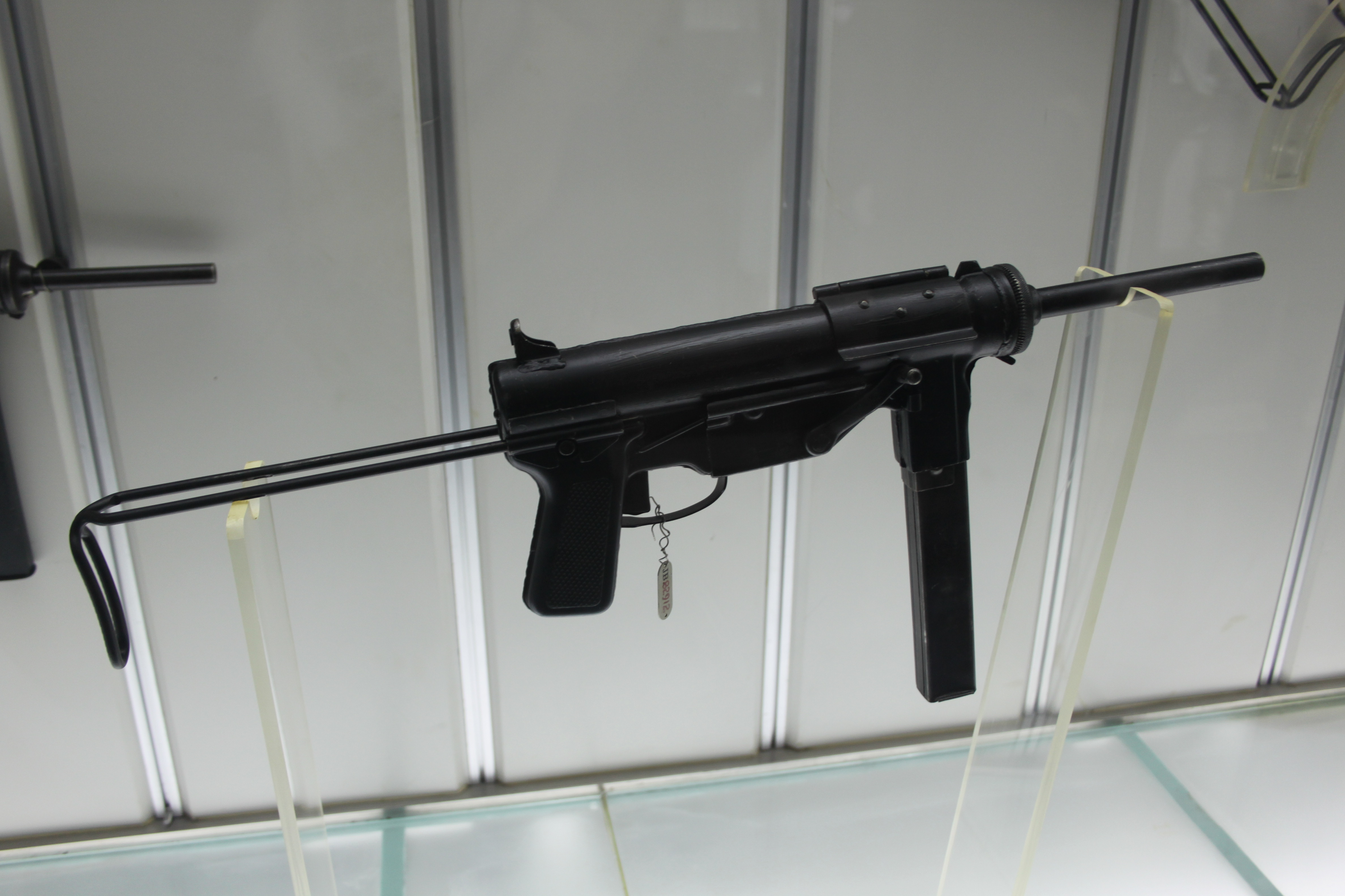 Military Museum: Modern Weapons, Small Arms Gallery. Complete indexed photo collection at .